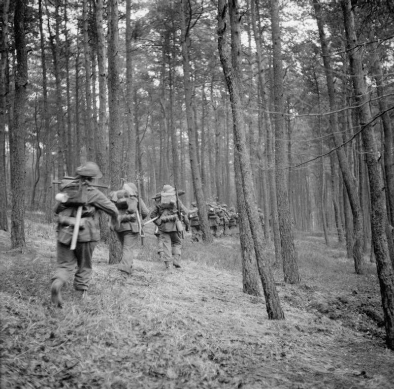 The British Army in North-west Europe 1944-45 Infantry advance through the Reichswald during Operation 'Veritable', 8 February 1945.